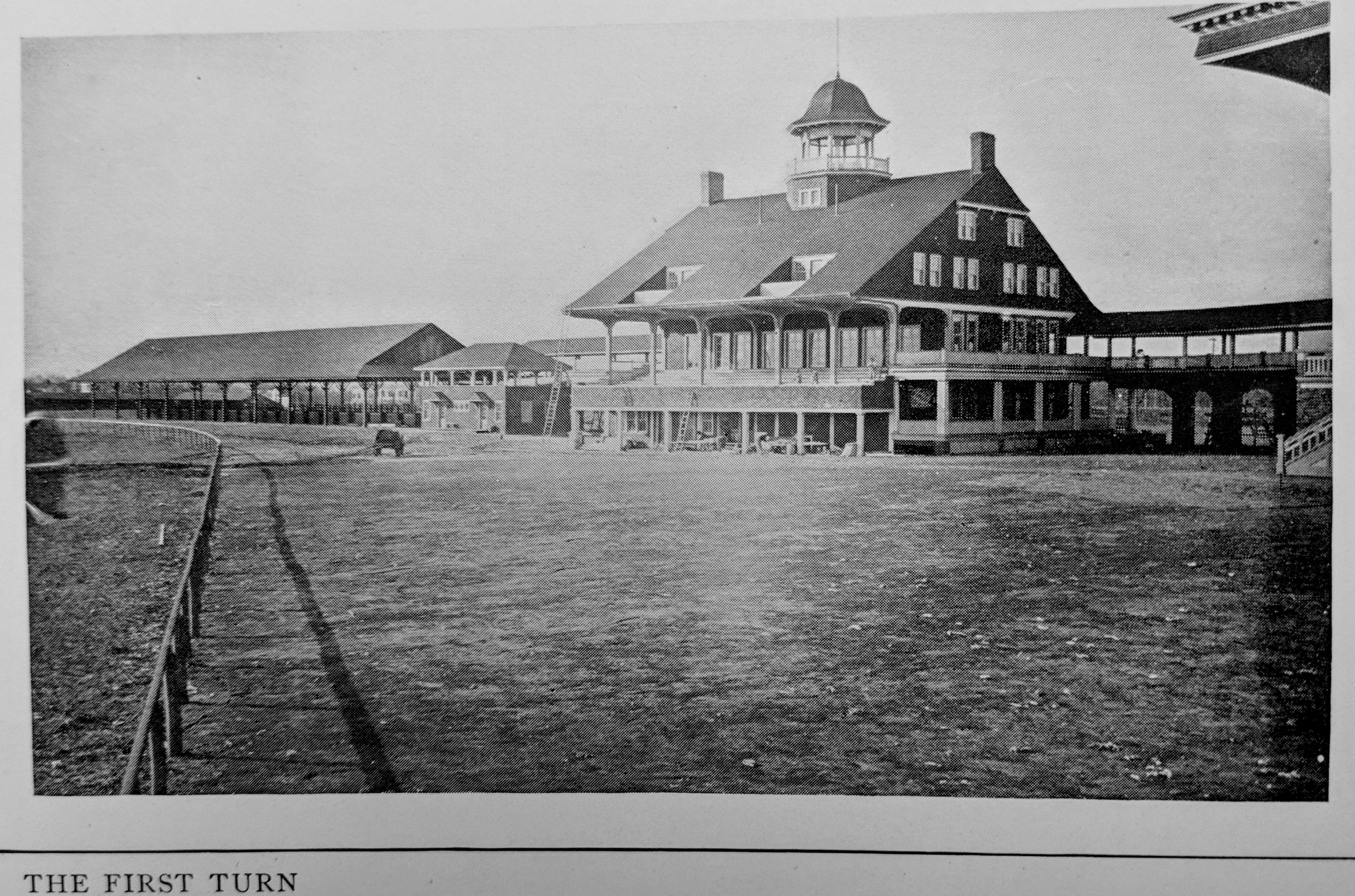 Owned by the metropolitan Jockey club